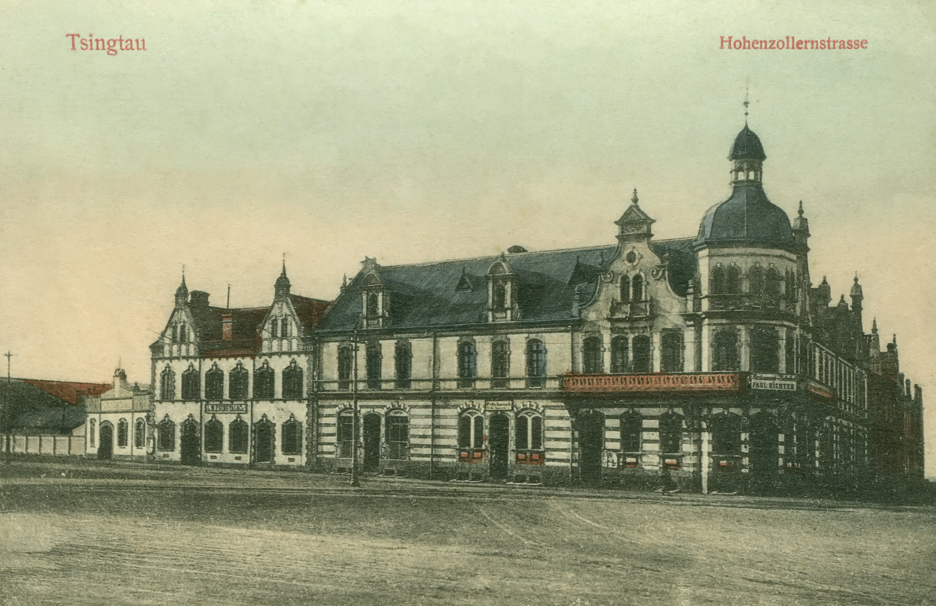 Tshingtau (Kiautschou) Hohenzollern road ~ 1898.